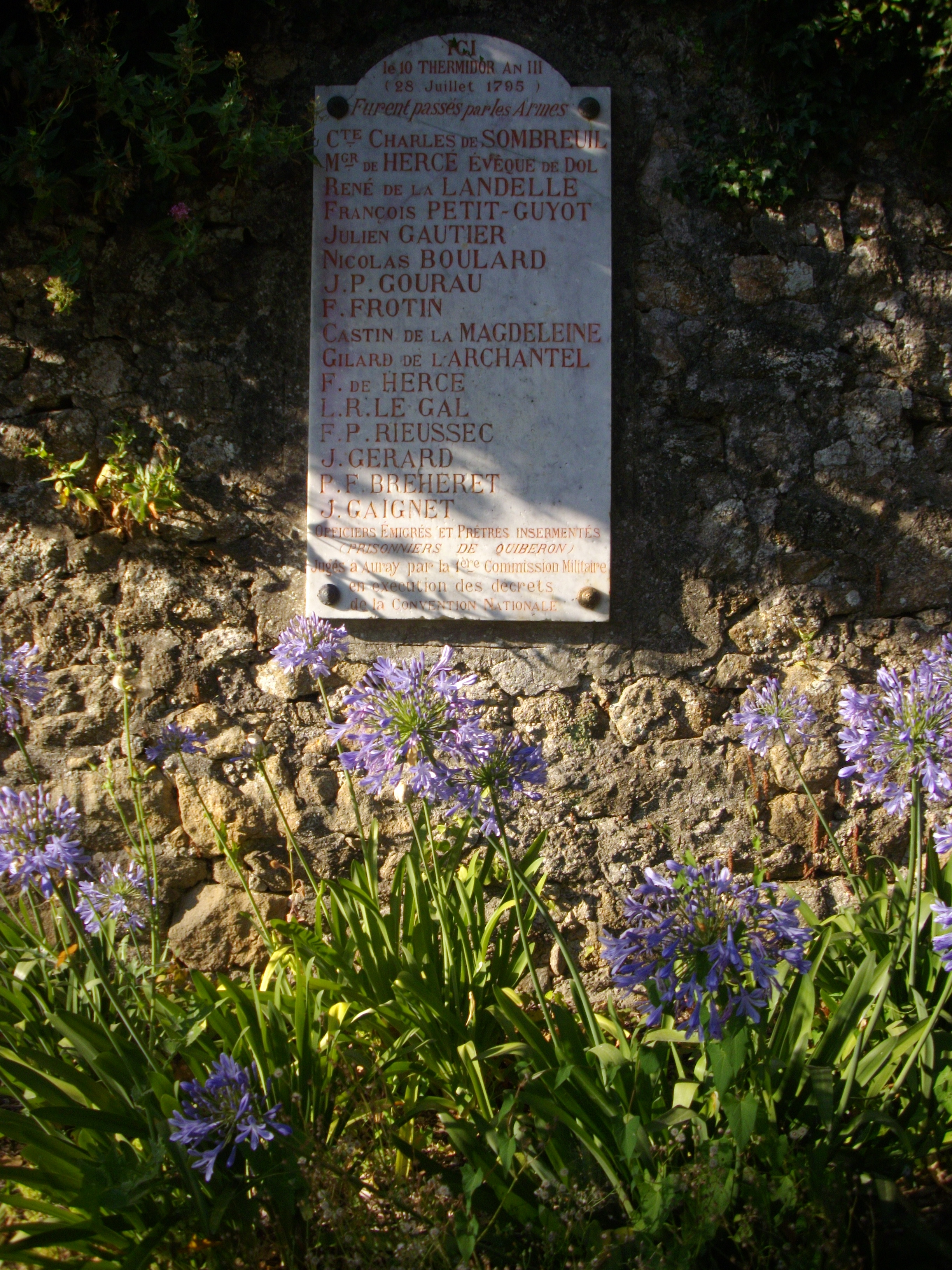 Plaque to the Year III shoten people in Garenne gardens, in Vannes (Morbihan, France)